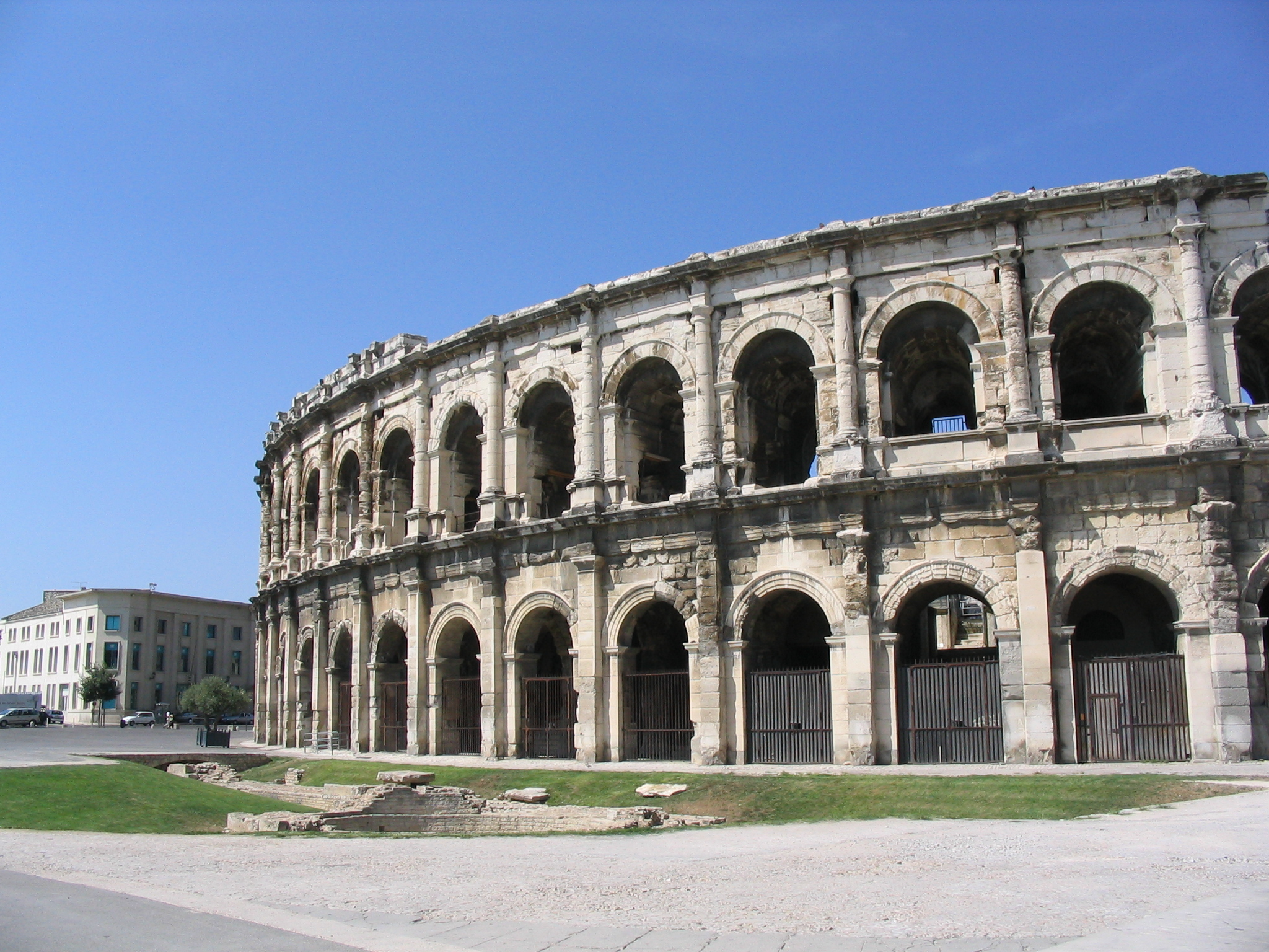 Arena of Nîmes, the Roman amphitheater in Nîmes, France. In the foreground the ruins of the Roman city wall.